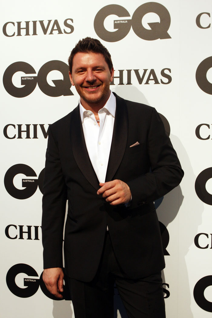 Manu Feildel at GQ Men of the Year Award 2011